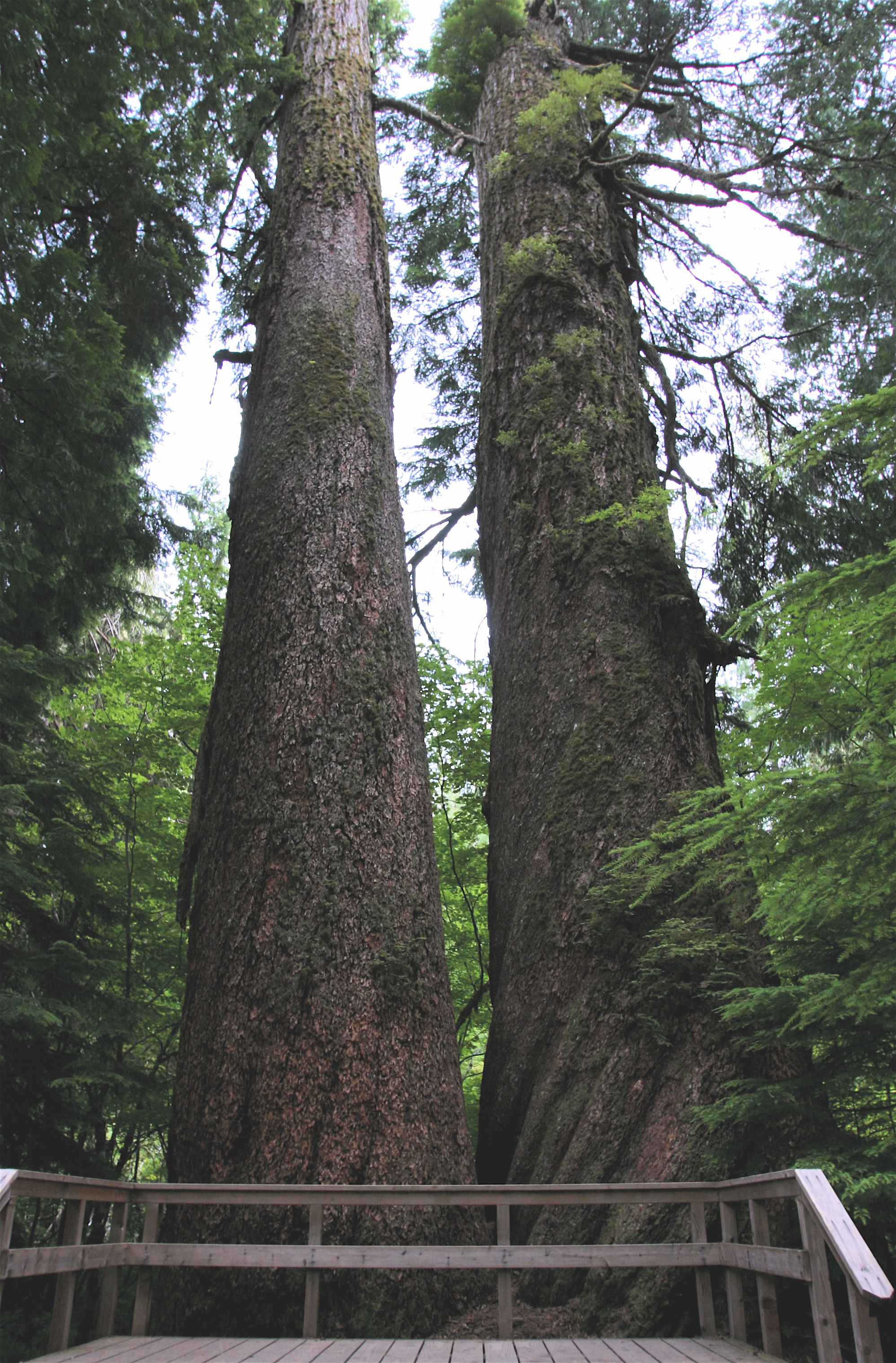 1,000 year old Douglas Firs in The Grove of the Patriarchs, Mount Rainier National Park. The placard reads: In front of you stand two 1000-year-old Douglas-firs. The centers are rotten; only the outer 9-10 inches are solid wood. One has lost its top to the wind; the other's crown is dead. Barely enough foliage remains to provide food to keep these trees alive. Despite these hardships, they survive.